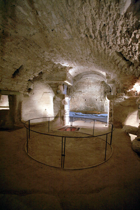 Details of the Saint Firmain Palace, village of Gordes in Vaucluse, France